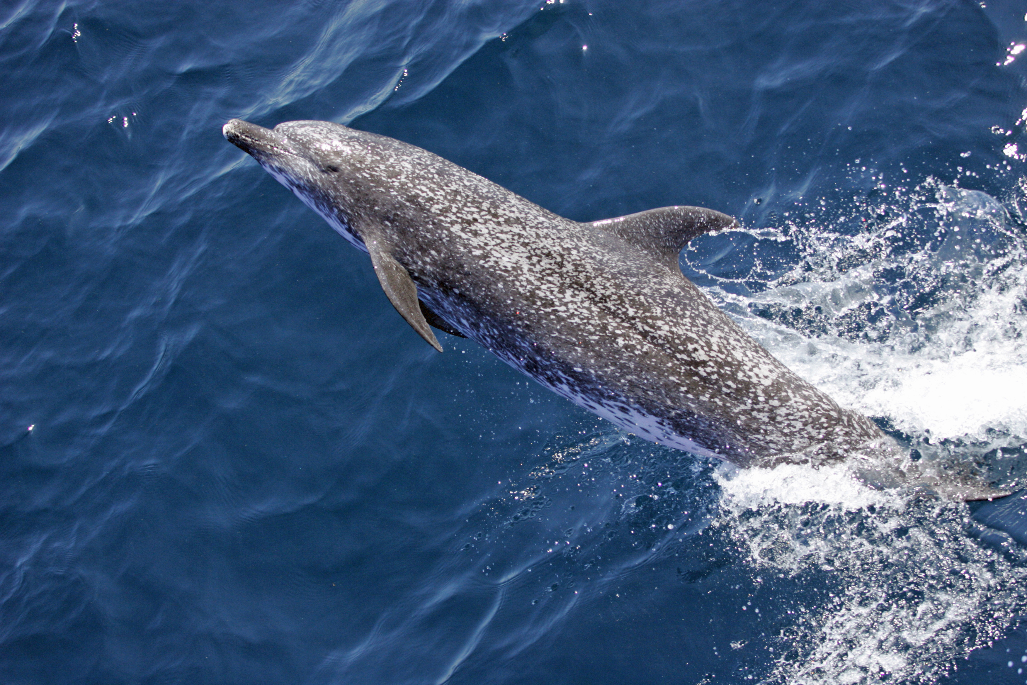 Atlantic spotted dolphin (Stenella frontalis) The original NOAA image has been modified by adjusting tone and brightness.